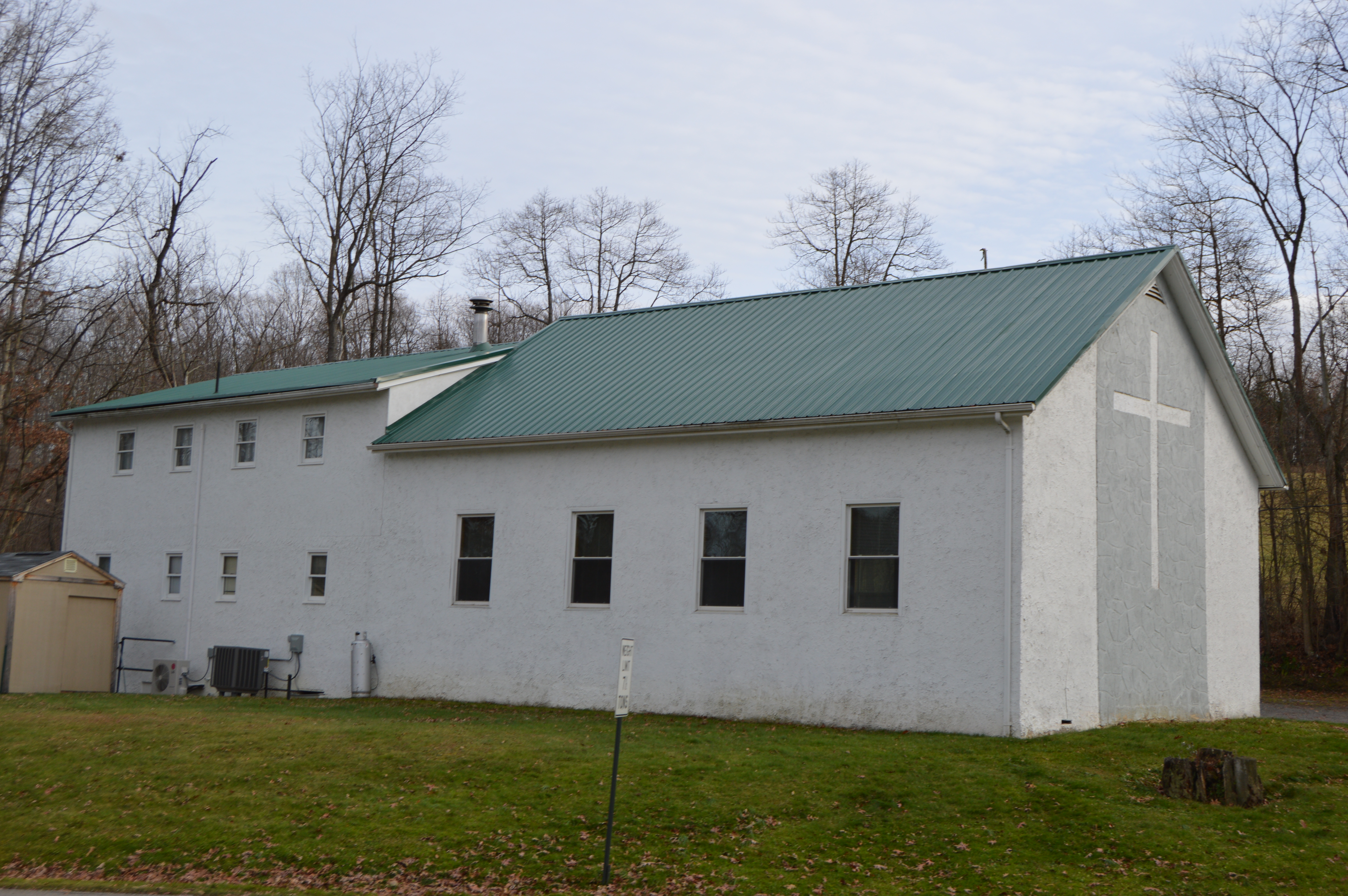 Northern side and front of the Tusca Area Reformed Presbyterian Church, located on the eastern corner of the junction of Chapel and Darlington Roads in Brighton Township, Beaver County, Pennsylvania, United States.